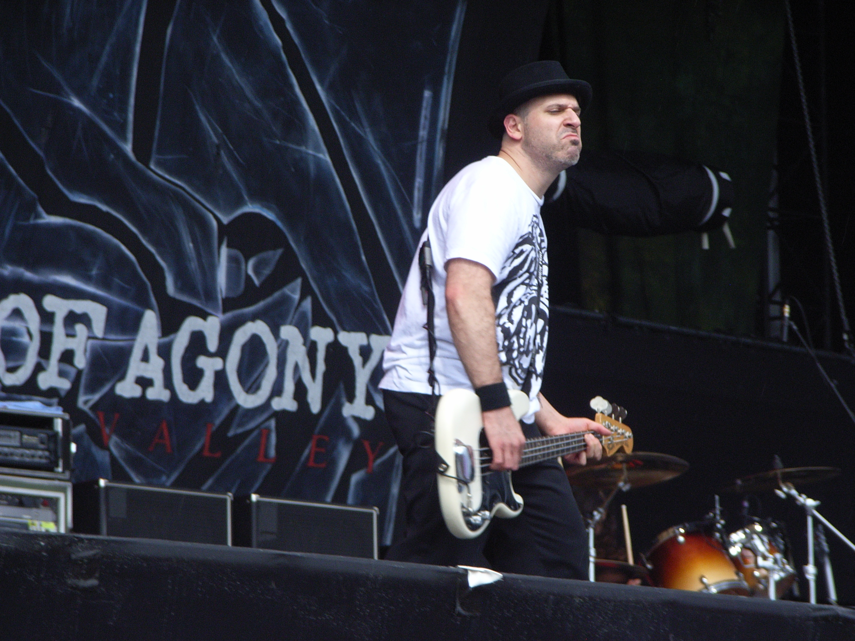 Bass player Alan Robert of Life of Agony at Graspop 2007